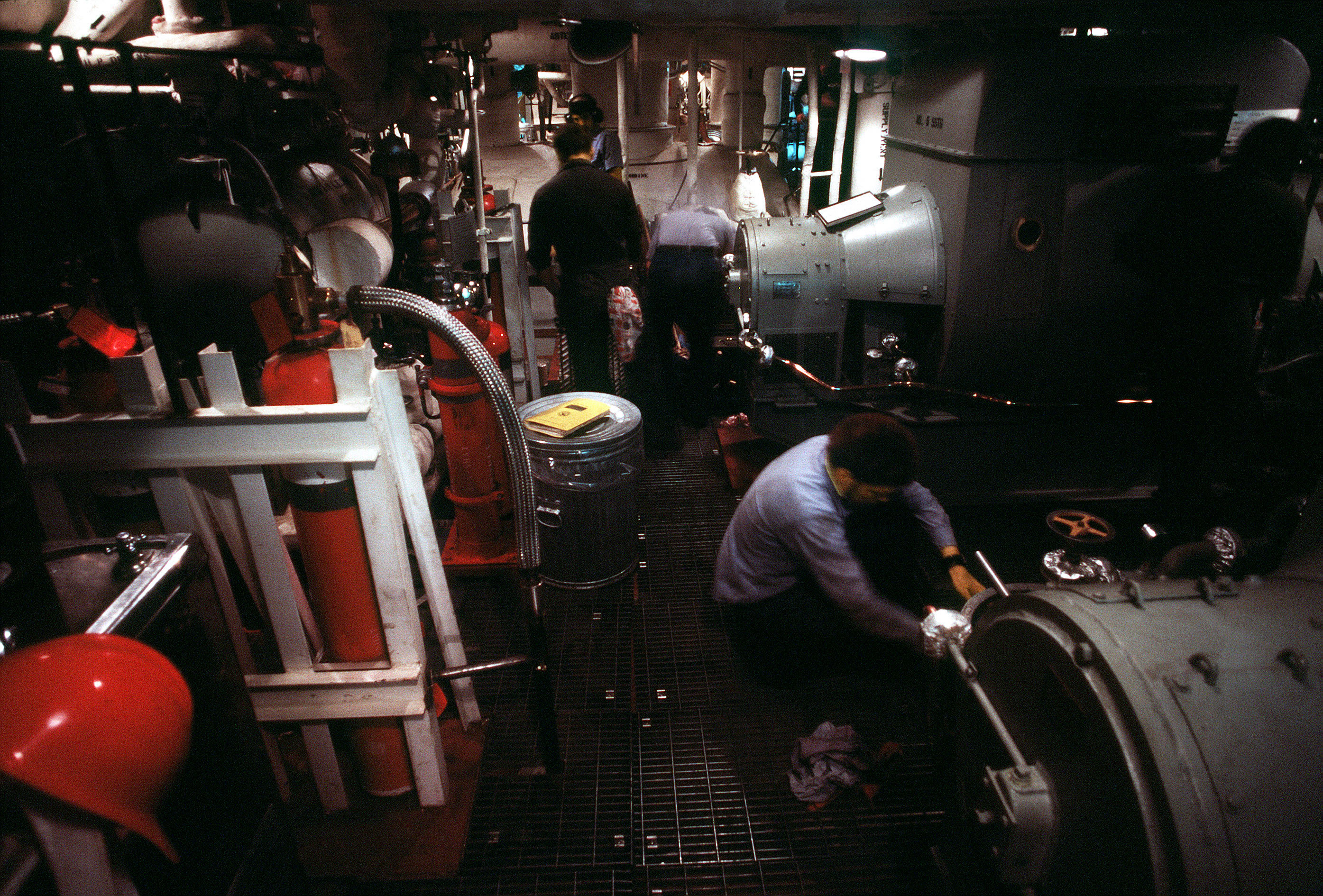 Crewmen operate the electrical generators in the upper level engine room aboard the USS NEW JERSEY (BB 62). The NEW JERSEY, after recently completing renovation and modernization, is undergoing sea trials prior to reactivated in January 1983.